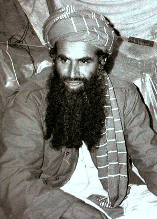 This is a photo of Abdul Rasul Sayyaf of Afghanistan (left) with one of his top lieutenants, Commander Abdullah. I took this picture when I interviewed him in Jaji, Paktia Province, Afghanistan on 30 August 1984. [hillwalker] hillwalker 13:18, 18 August 2007 (UTC)